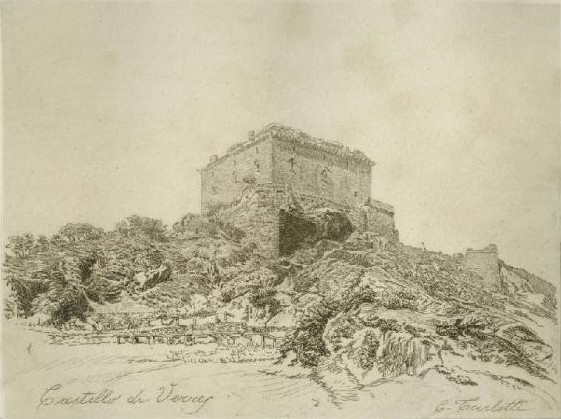 Engraving of Verres castle by Celestino Turletti